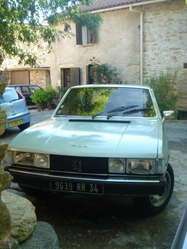 Peugeot 604 TI modèle 1979 couleur Vert argent métallisé